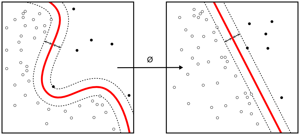 Kernel machines are used to compute a non-linearly separable functions into a higher dimension linearly separable function.